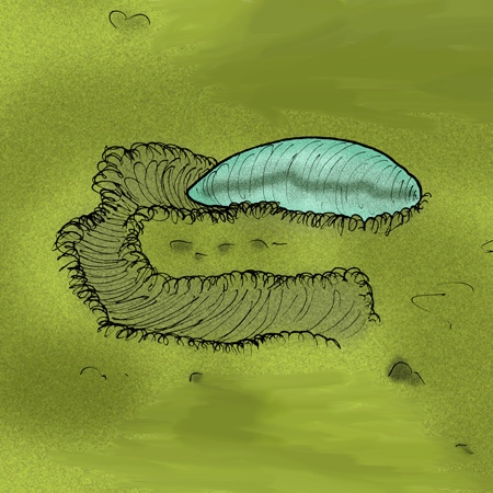 Restoration of the ur-bilaterian candidate, Ikaria wariootia, from Ediacaran South Australia